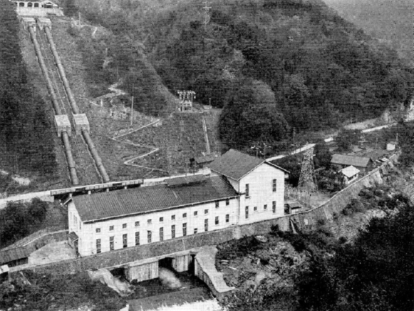 Kushihara power station.